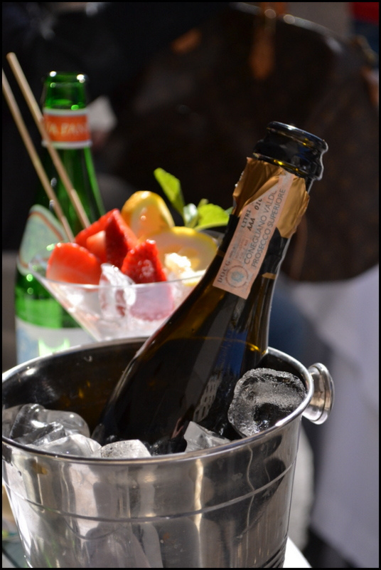 Italian sparkling wine Prosecco from the north east Italian wine region of the Veneto being chilled in an ice bucket.